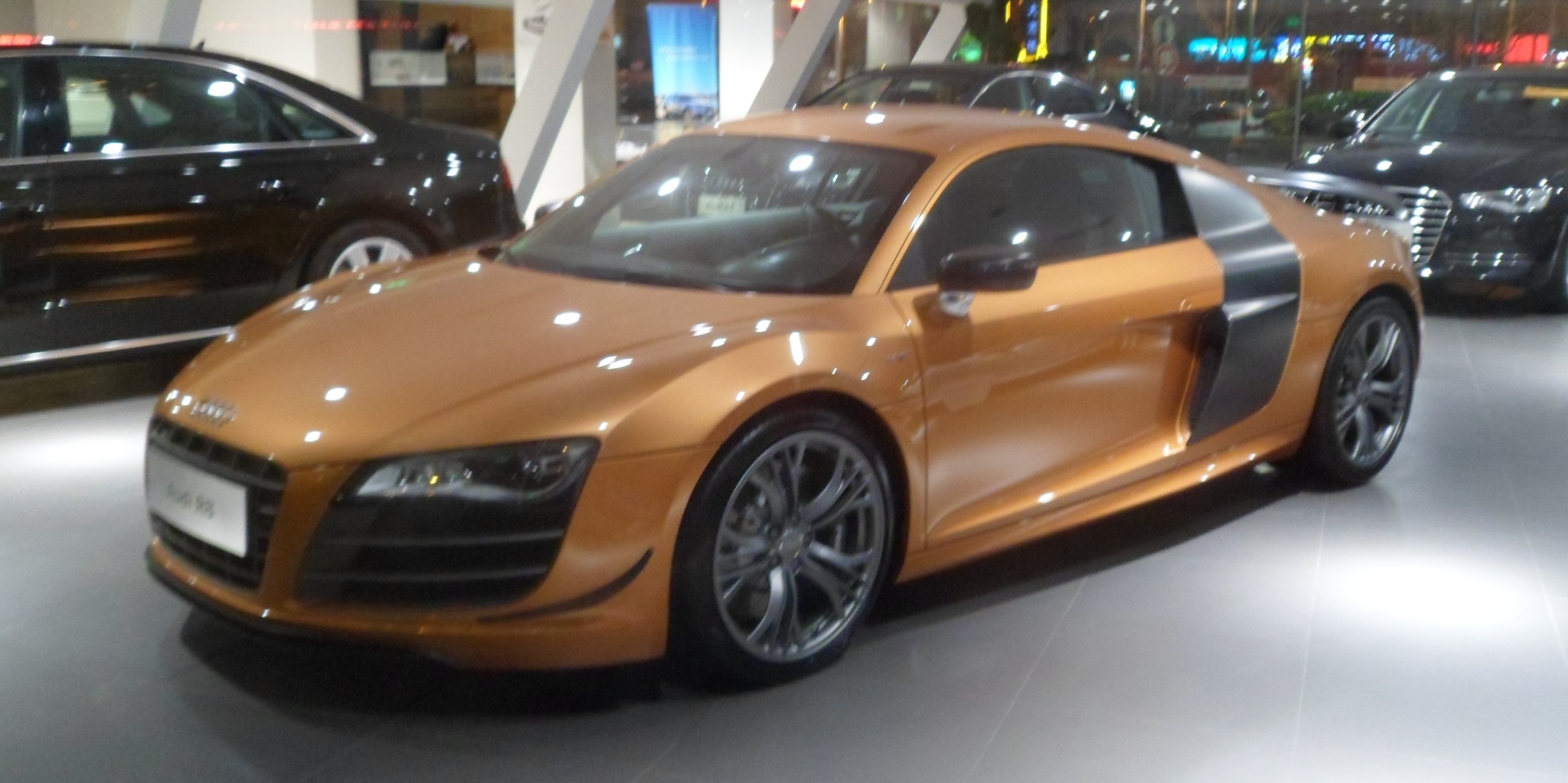 Audi R8 GT photographed in Shanghai, China.